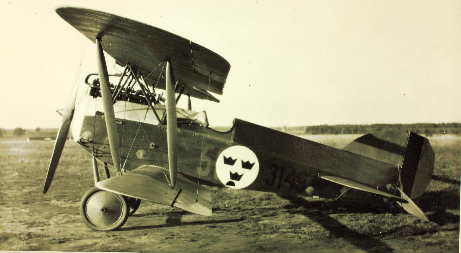 Phönix D.III of the Swedish Air Force.